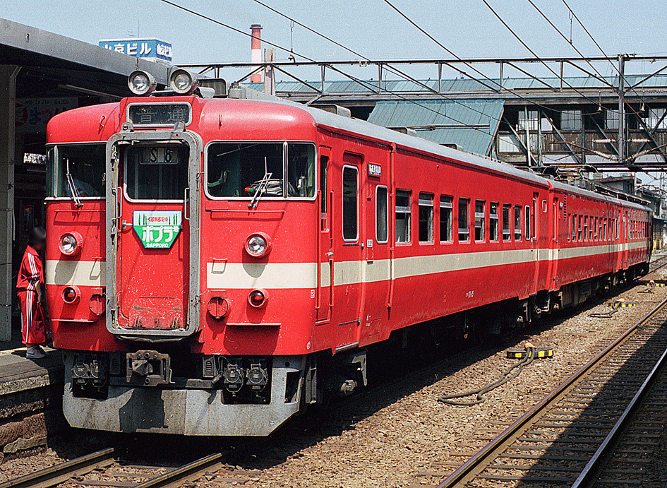 JNR 711 series EMU for Kurukuru Train Poplar at Sapporo Station